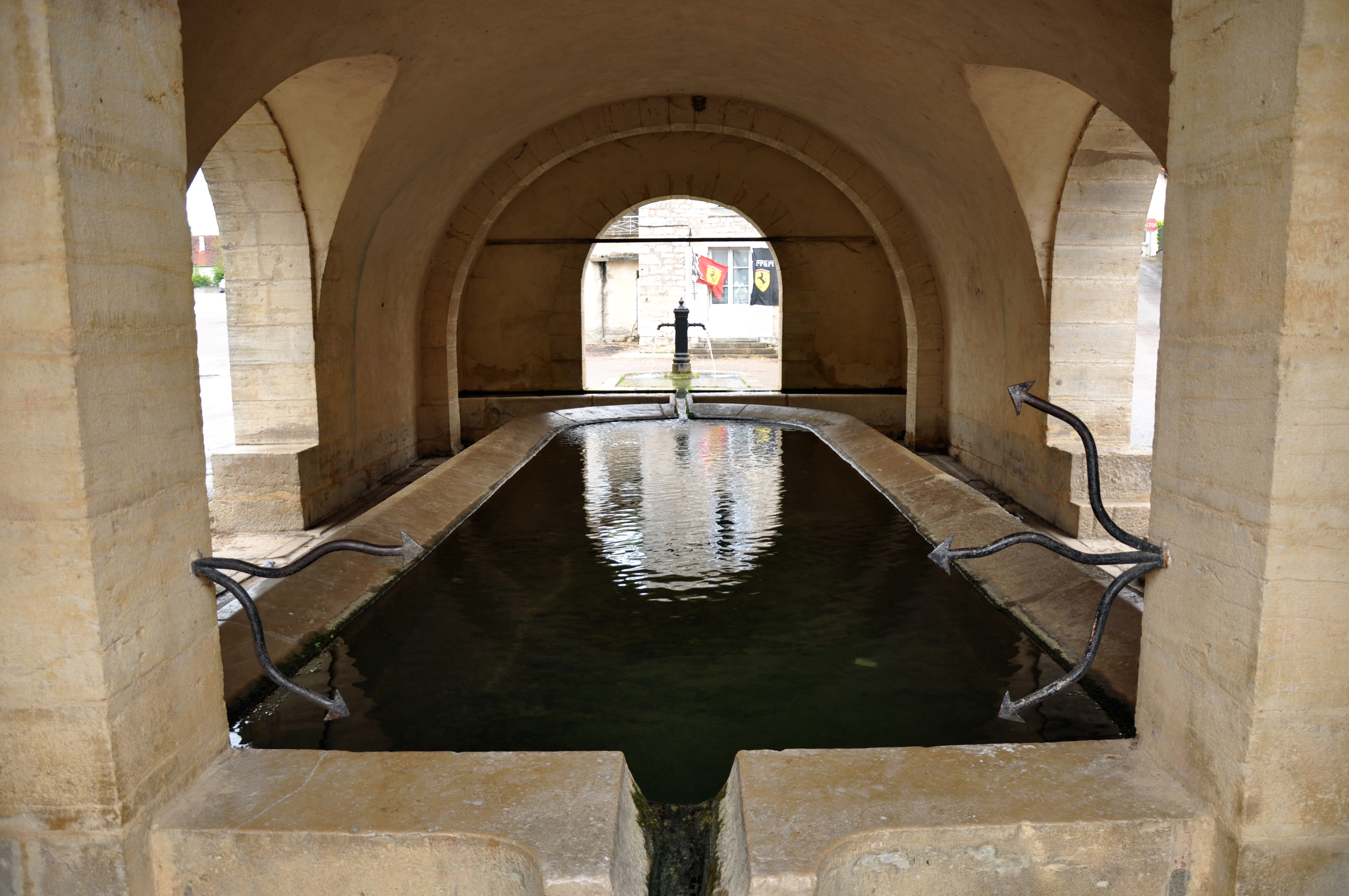 Beaujeu-Saint-Vallier-Pierrejux-et-Quitteur: the wash house under the town hall (Louis Moreau architect, 1830).